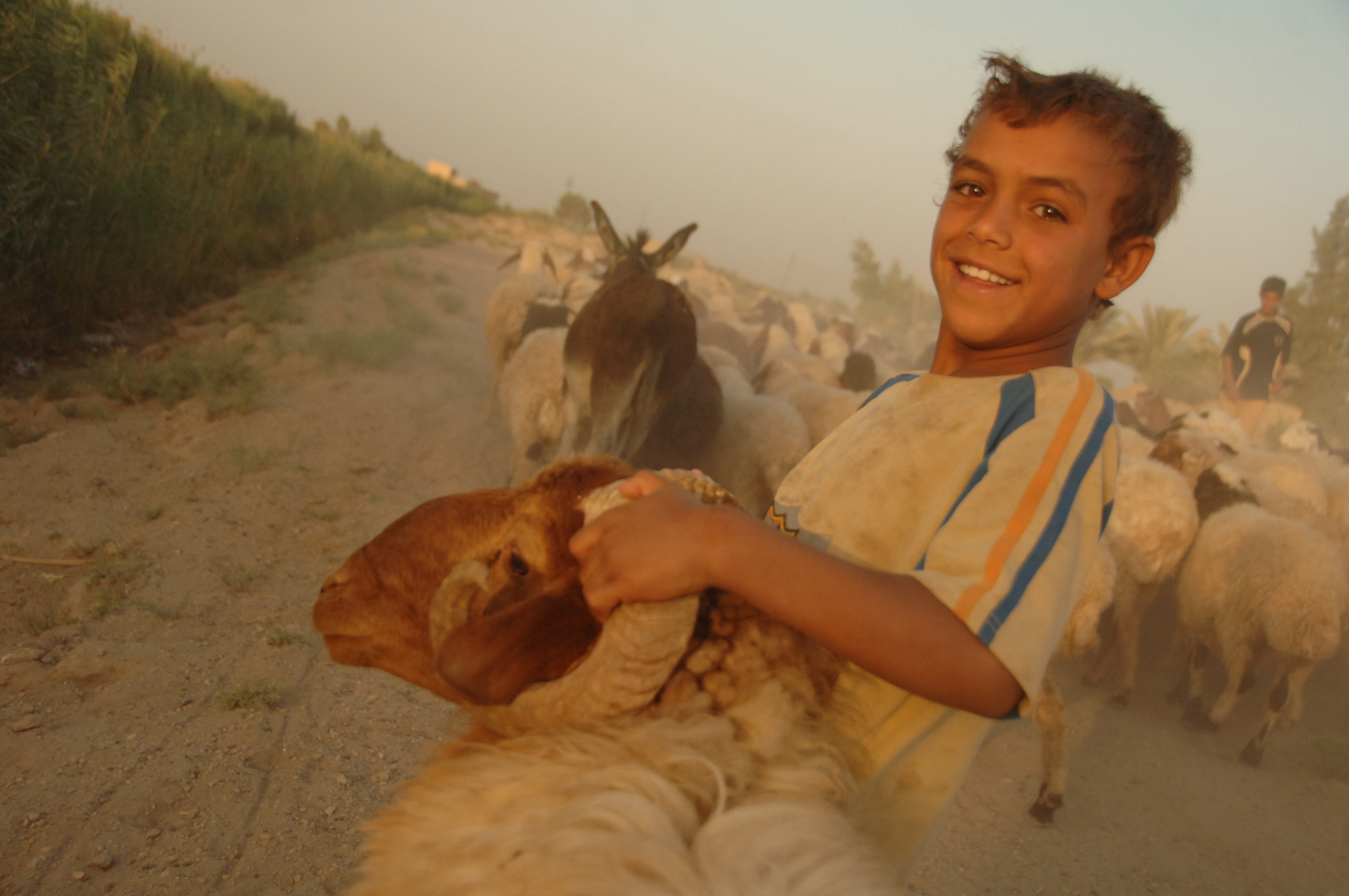 An Iraqi child passes by a road block being maintained by the 101st Airborne Division, 1st Battalion, 187 Infantry Regiment, while making sure none of his sheep run away in Al Sadr Yusifiyah, Iraq on July 12, 2008.